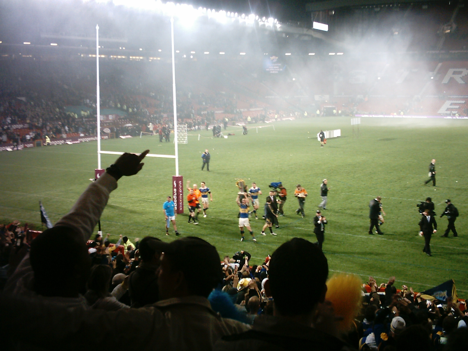 Leeds Rhinos celebrating their 2008 Superleague victory